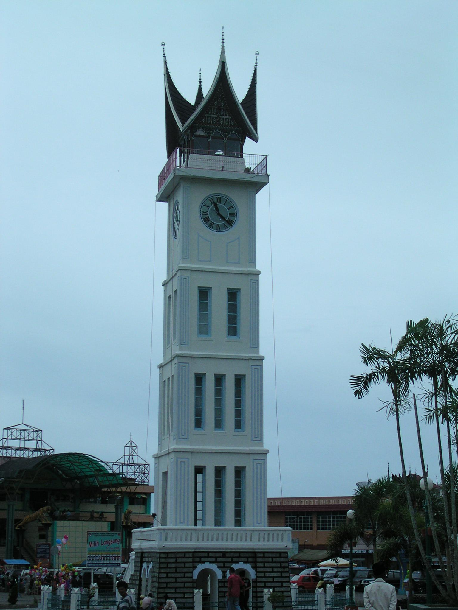 "Jam Gadang" clocktower in Bukittinggi, Sumatra, Indonesia